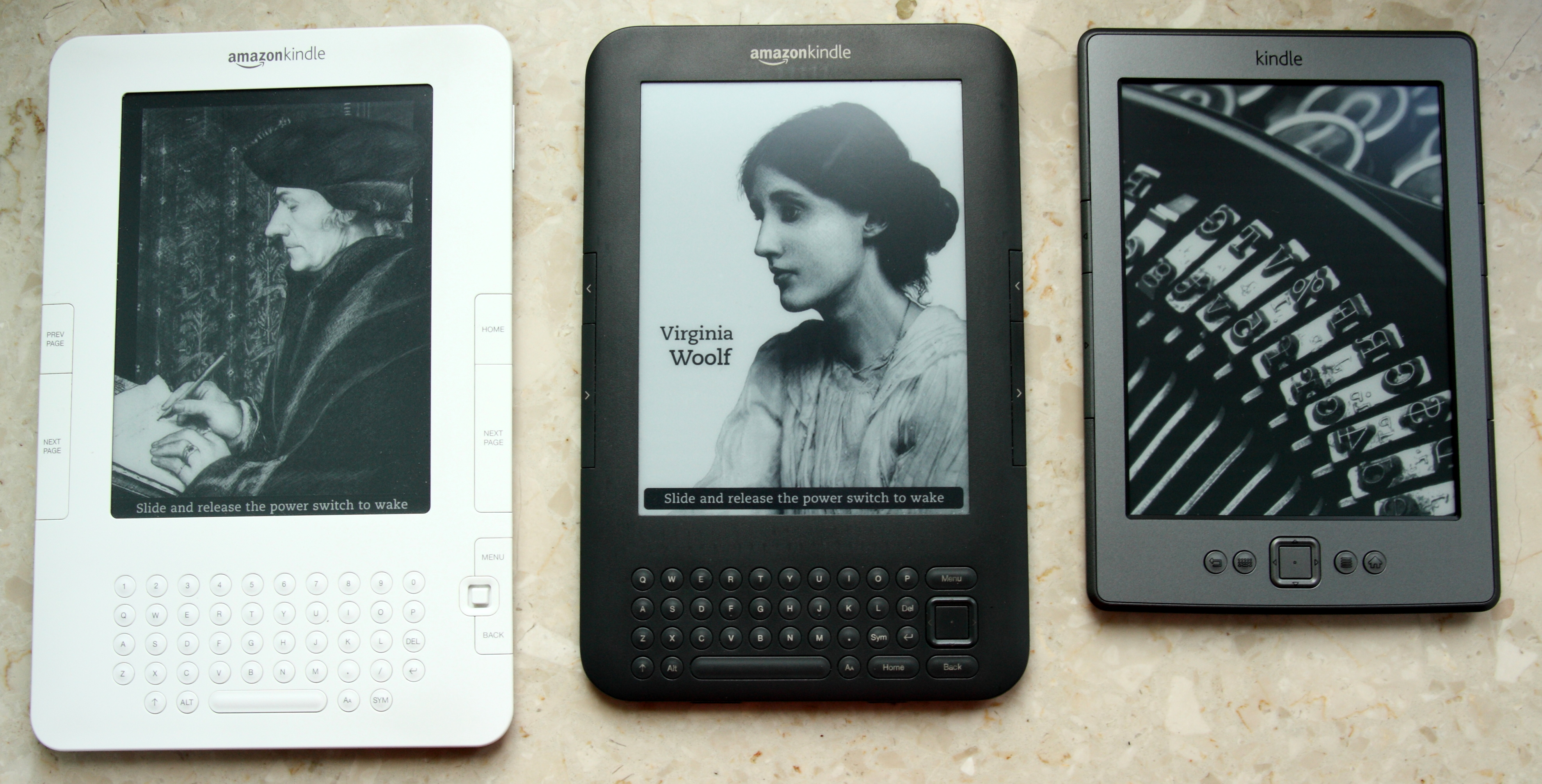 3 Kindle models: 2, 3 and basic version of 4.